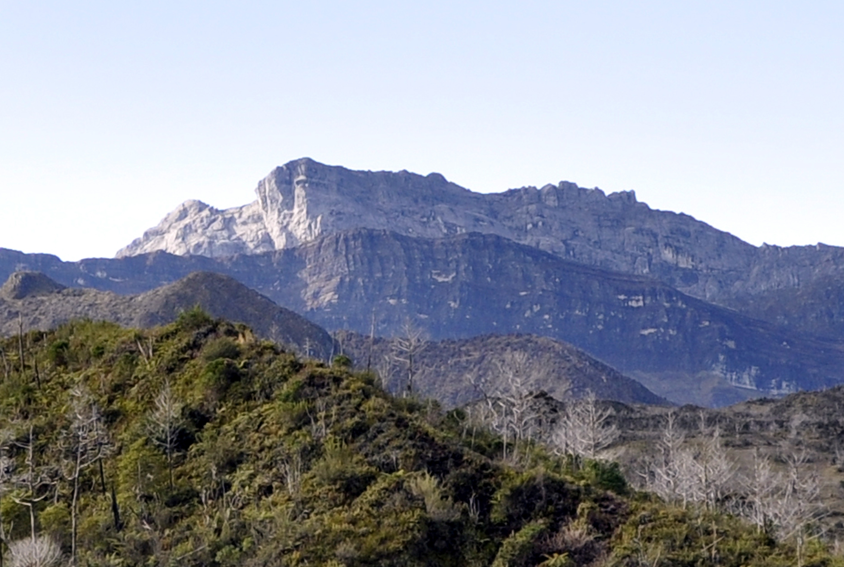 Puncak Trikora from north. main summit (center left) and west ridge by Christian Stangl flickr